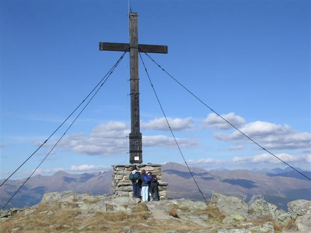 Heimkehrerkreuz built by former world war participants in the Carnic Alps This media shows the remarkable cultural object in the Austrian state of Tyrol listed by the Tyrolean Art Cadastre with the ID 82136.